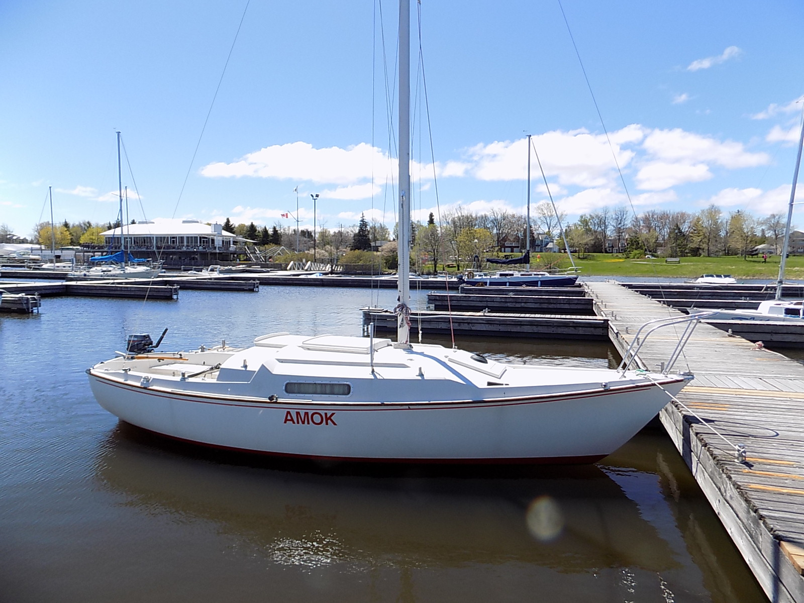 A C&C 25 Redline sailboat named Amok